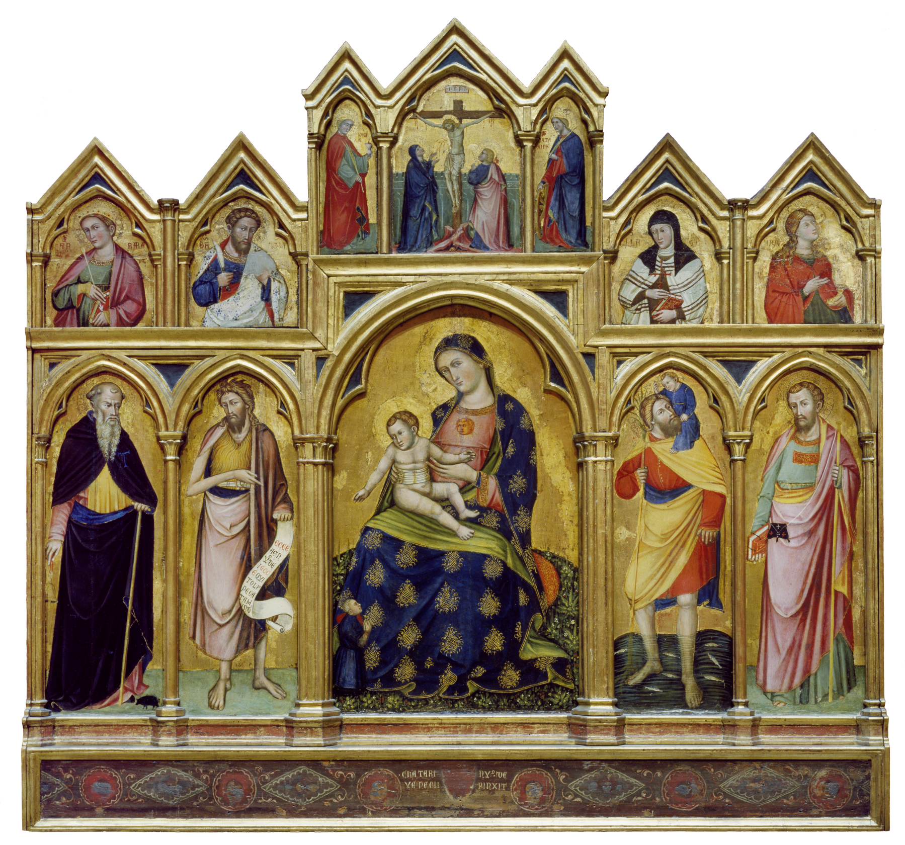 Painting during a period when artists no longer worked as anonymous craftsmen, Catarino signed this altarpiece prominently, "Catarino from Venice painted [this]." Juxtaposed with the donor's coat of arms (lower center, now missing), this signature aligns him with the patron, who kneels at Mary's feet. The patron shows his devotion through his commission, the artist through his skill. The glowing face on Mary's dress associates her with the "woman clothed with the sun" (Revelation 12:1) of the Bible. Both Mary and the Woman were understood to be symbols of the Christian Church. Sts. Anthony Abbot and John the Baptist stand to Mary's right. To her left are Sts. Christopher and James the Great. St. Lucy, with her lamp, and St. Catherine of Alexandria, with her wheel, flank the Crucifixion with Mary and John at the top. The half-length figures, from left to right, are Sts. Ursula, Bartholomew, Clare, and Barbara. (Ursula and Barbara have been mislabeled but may be recognized by their attributes-Ursula holds an arrow, and Barbara holds a monstrance, a container used to display the consecrated wafer.) For more information on this polyptych, please see Zeri catalogue number 34, pp. 56-58.